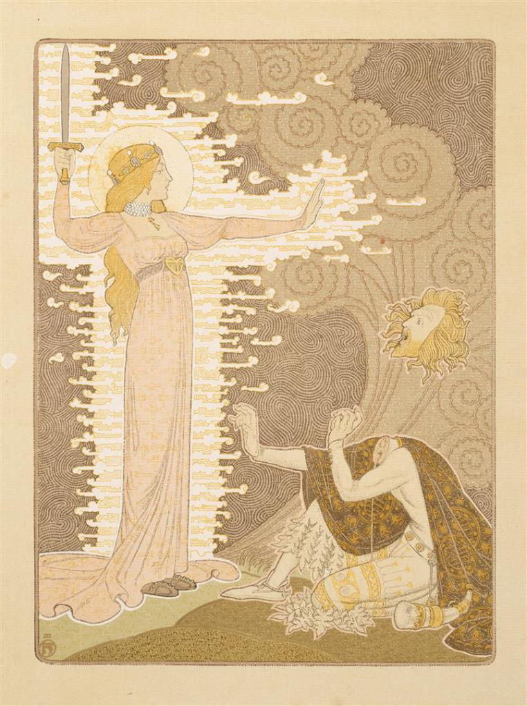 Depicts a scene from dutch folk ballad Heer Halewijn. Illustration by Hendricus Jansen.